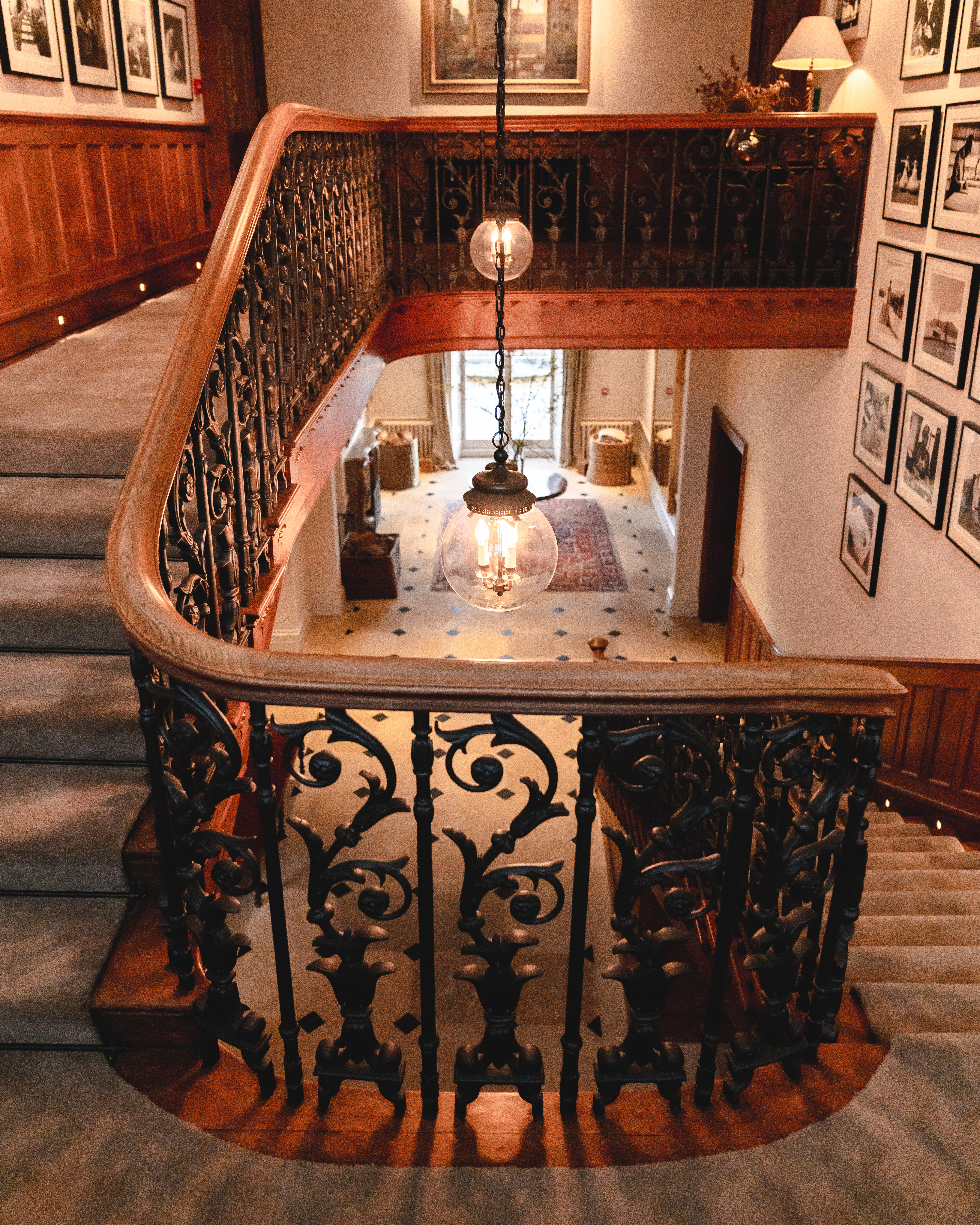 Heckfield Place stairs now